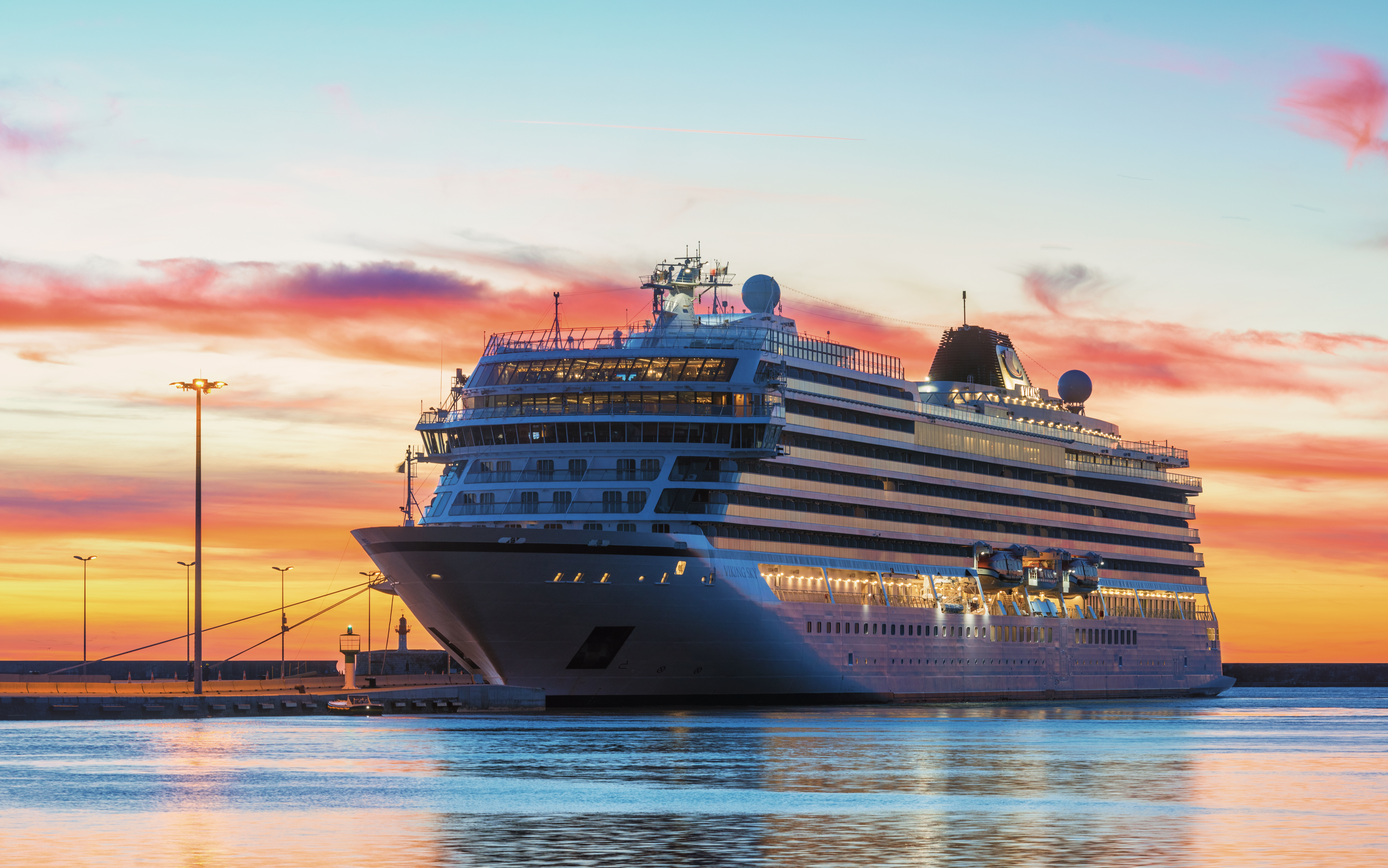 Viking Sky (ship, 2017) - moored in the harbour of Sète (Hérault, France)